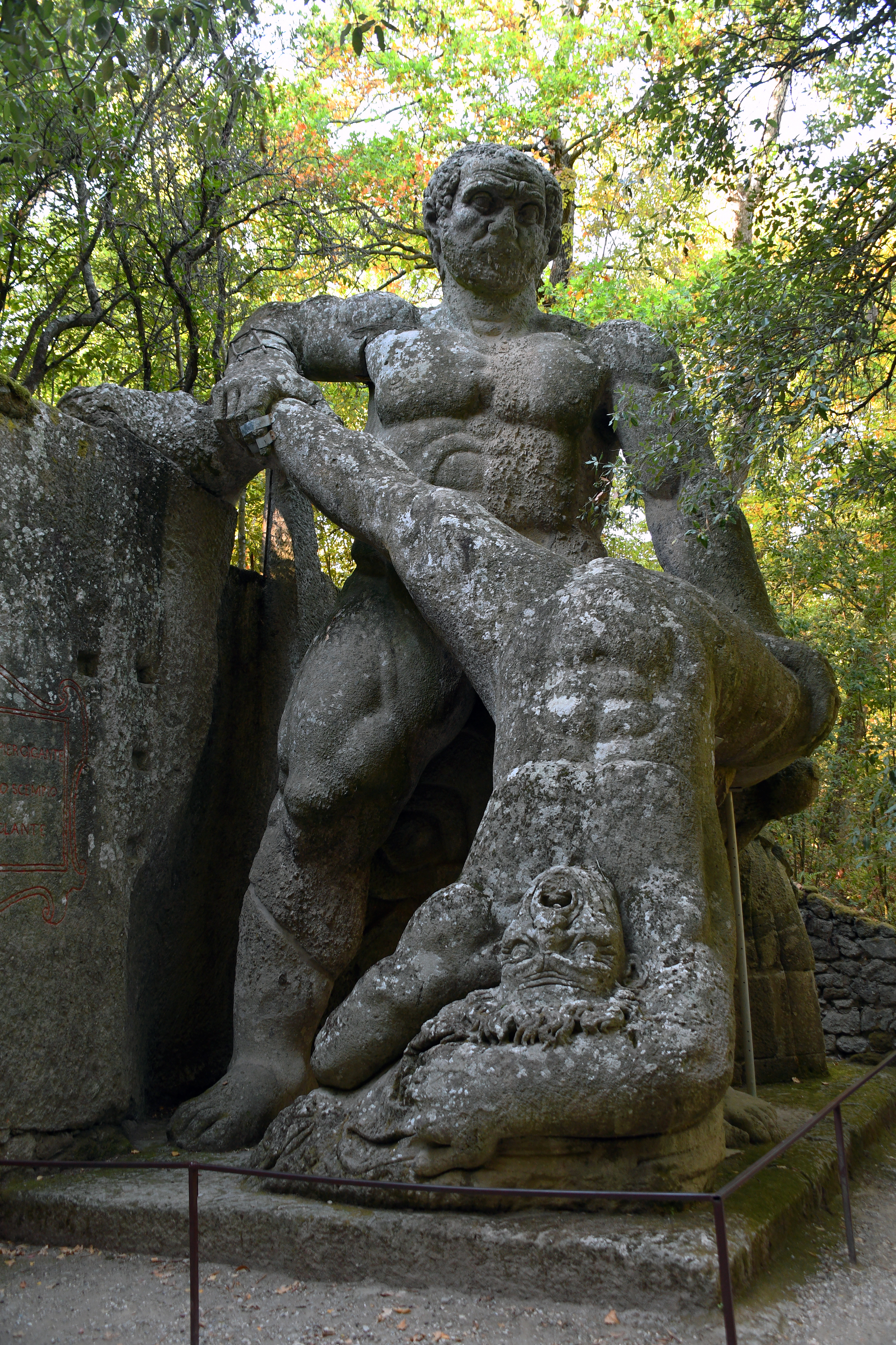 Hercules e Cacus in Parco dei Mostri (Bomarzo)